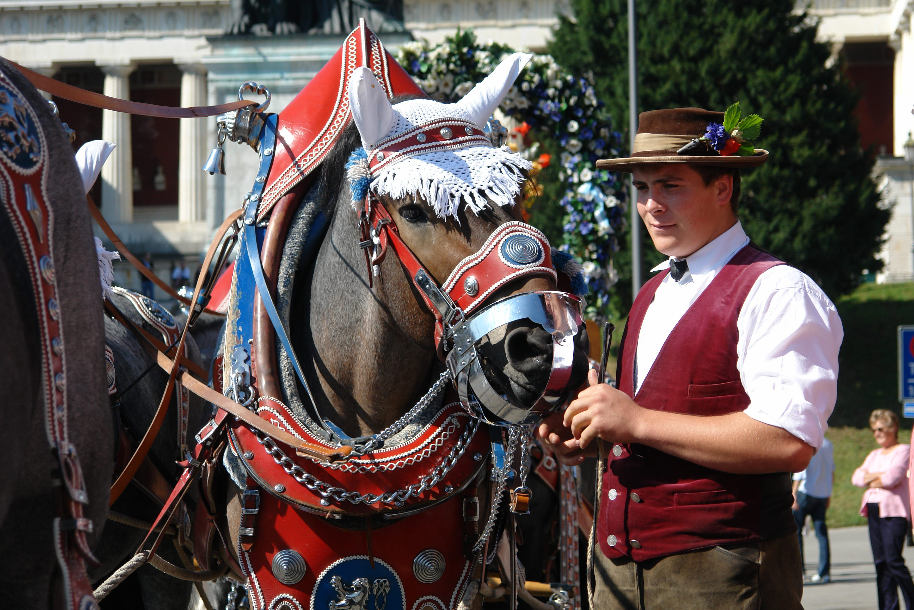 Coachman of a brewery carriage in traditional costume next to a decorated horse.